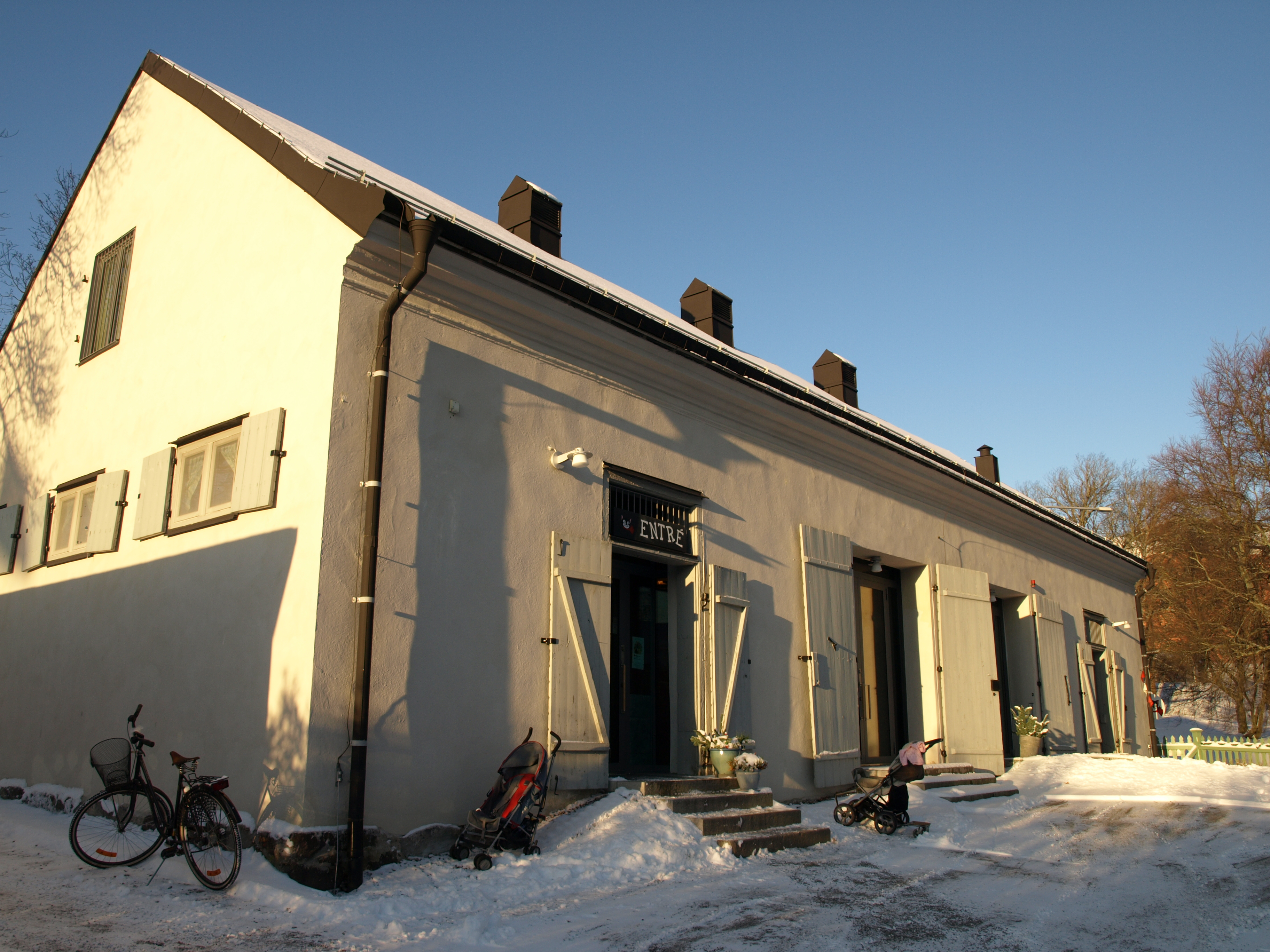 The house of Pelle Svanslös, a well known children's character in Sweden. The house is located near the castle of Uppsala, Sweden.